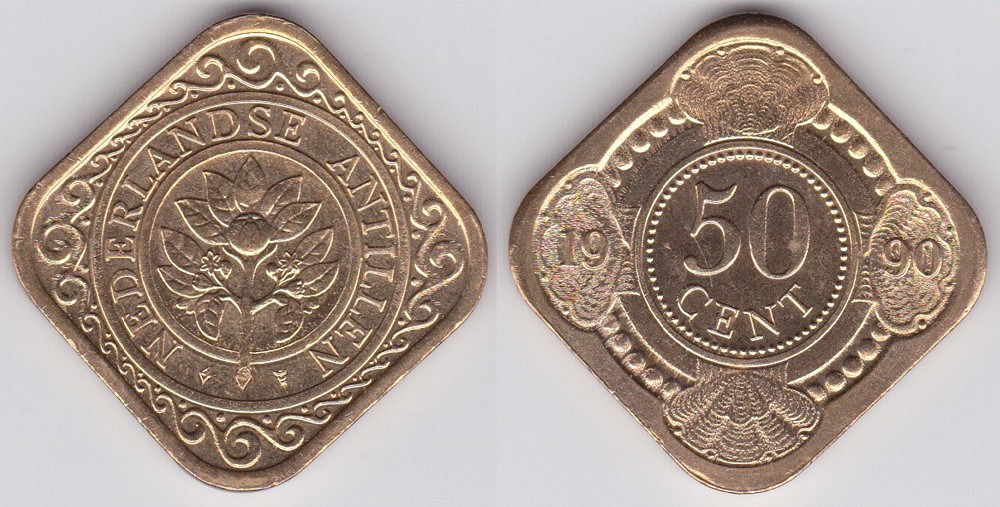 Netherlands Antilles 1990, 50 Cent, nickel-bonded steel, square